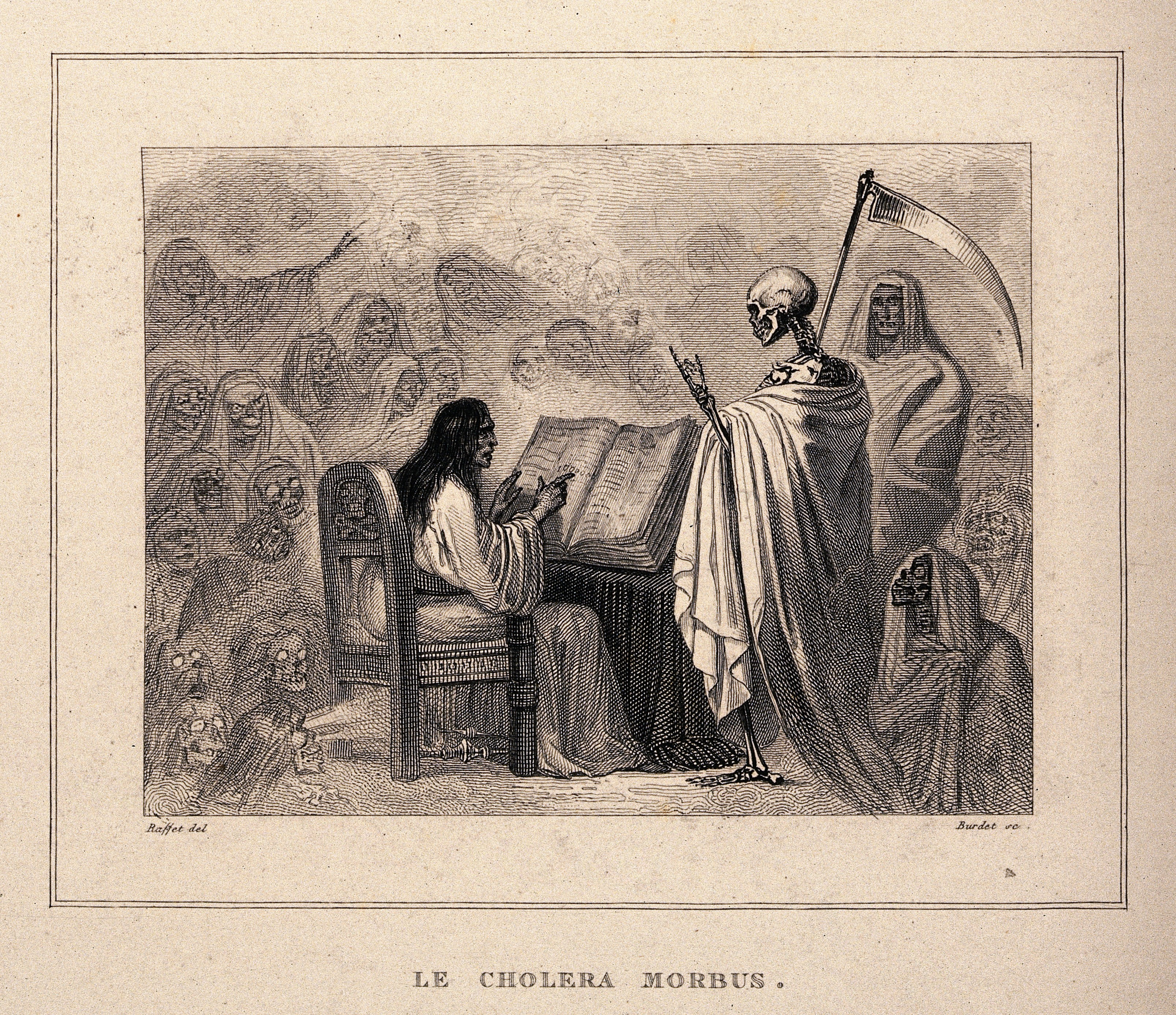 An allegory of cholera mortality. Etching by A. Burdet after A. Raffet. Iconographic Collections Keywords: Denis-Auguste-Marie Raffet; etching; Cholera; a. raffet; a. burdet; ALLEGORY; Augustin Burdet; Mortality